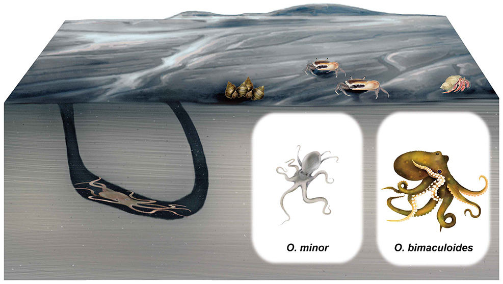 Octopus minor and Octopus bimaculoides in compaison, scheme of mudflat burrow